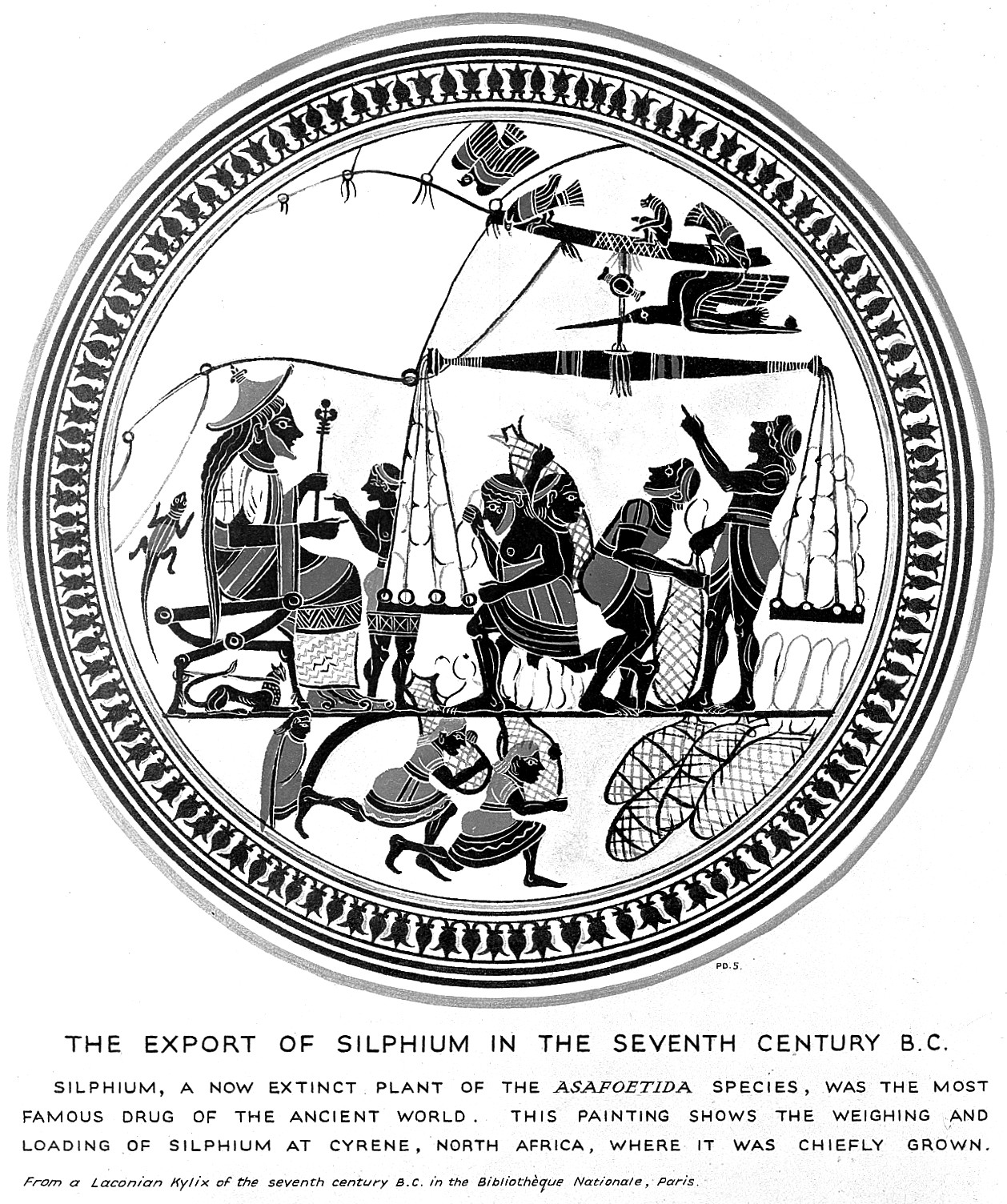 Wash drawing: Silphium, a now extinct plant of the Asafoedia species. From a Laconian Kylix, 7th century B.C. in the Bibliotheque Nationale Paris. Wellcome Images Keywords: Materia Medica; Botany